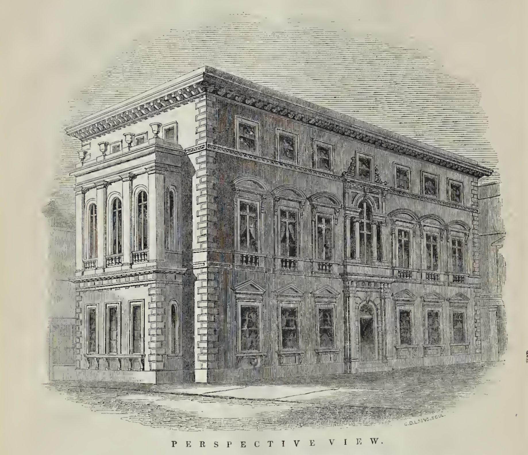 Perspective view of the Gresham clubhouse, King William Street, London, from trade periodical The Builder, 1844